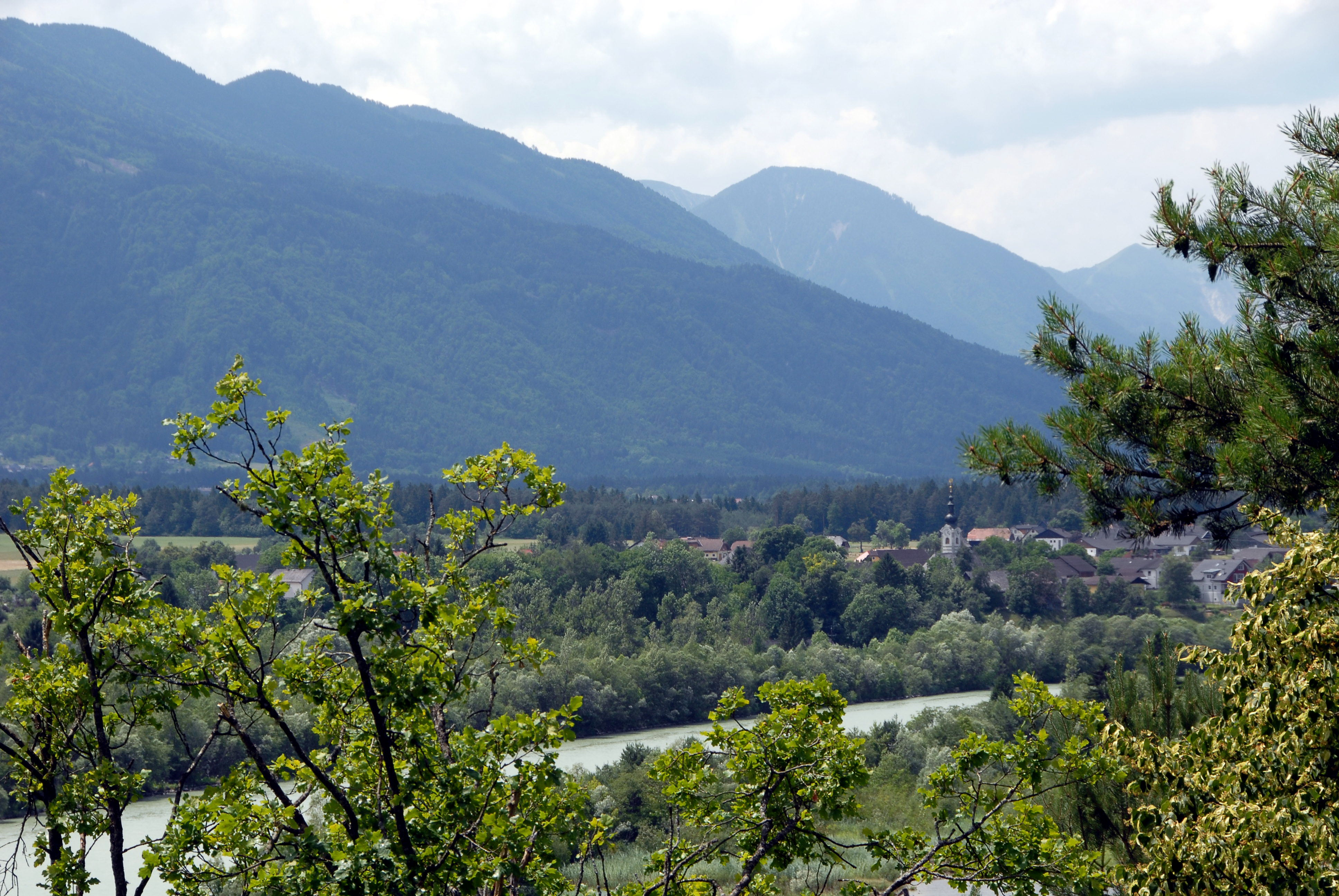 Meadow area at Guntschach in the community Maria Rain, district of Klagenfurt Land, Carinthia, Austria